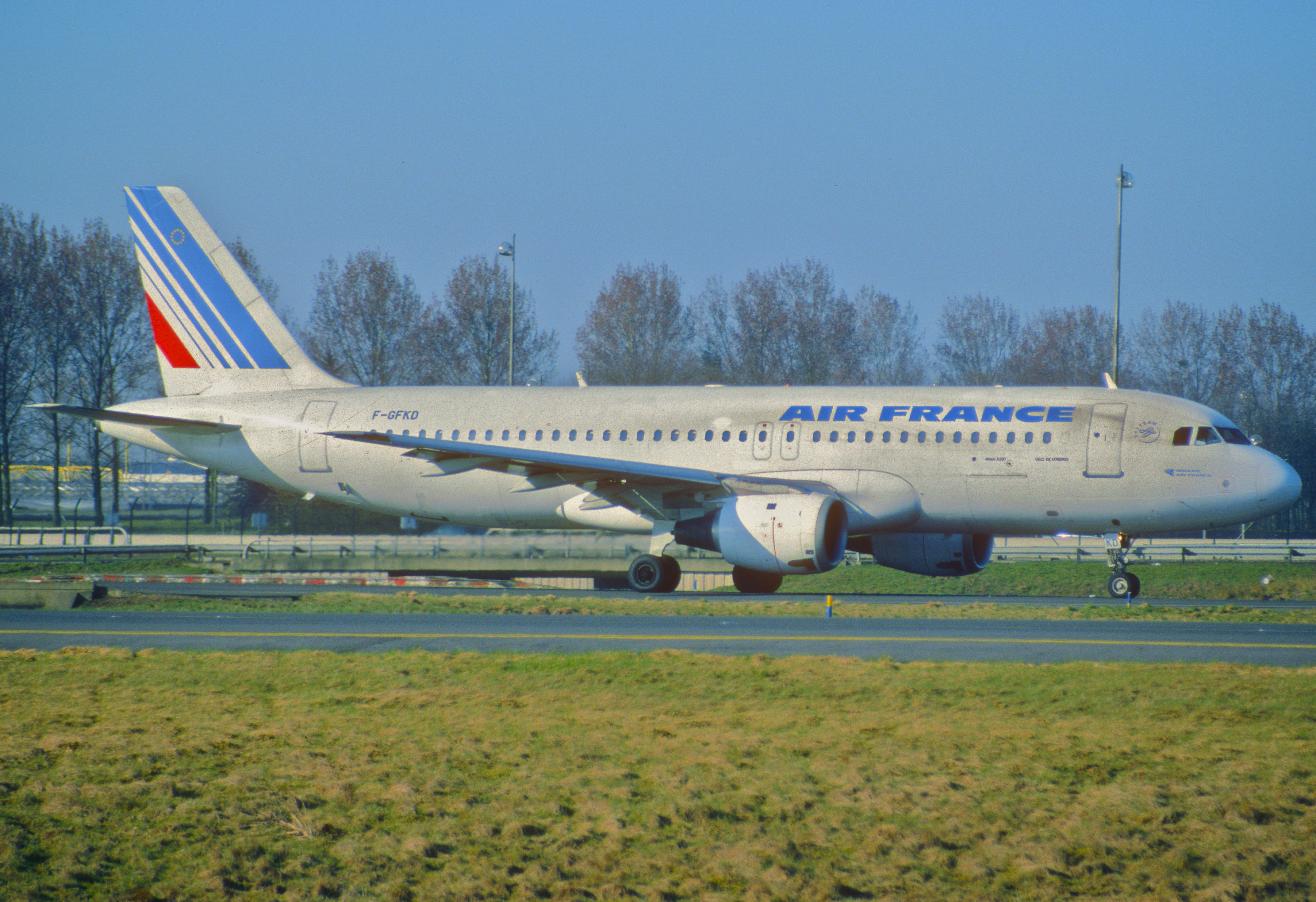 215bn - Air France Airbus A320-100; F-GFKD@CDG;19.03.2003